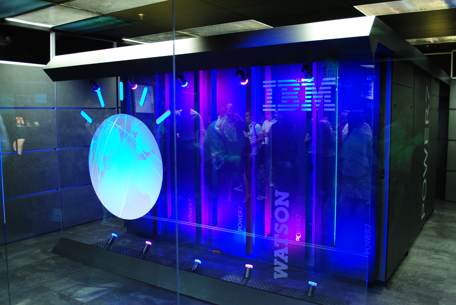 An early prototype of Watson in Yorktown Heights, NY. The cognitive computing system was originally the size of a master bedroom in 2011.